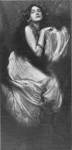 Mercedes Leigh, from a 1906 publication.